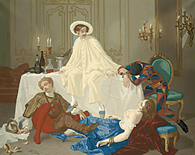 Painting by Thomas Couture, The Supper after the Masked Ball.